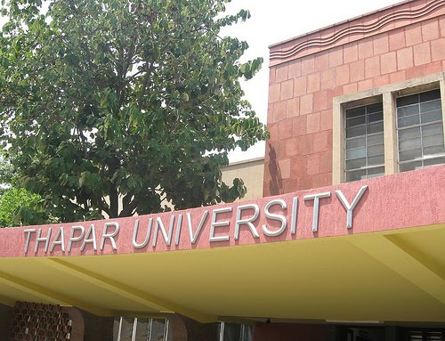 Thapar University Directorate